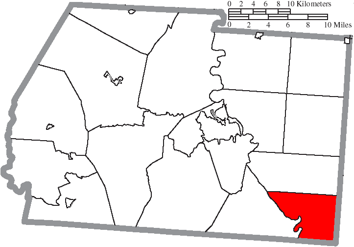 Map of the municipal and township boundaries of Ross County, Ohio, United States, as of the 2000 census, with the location of Jefferson Township highlighted. Township borders are shown only in unincorporated areas in order to differentiate incorporated and unincorporated areas more clearly.